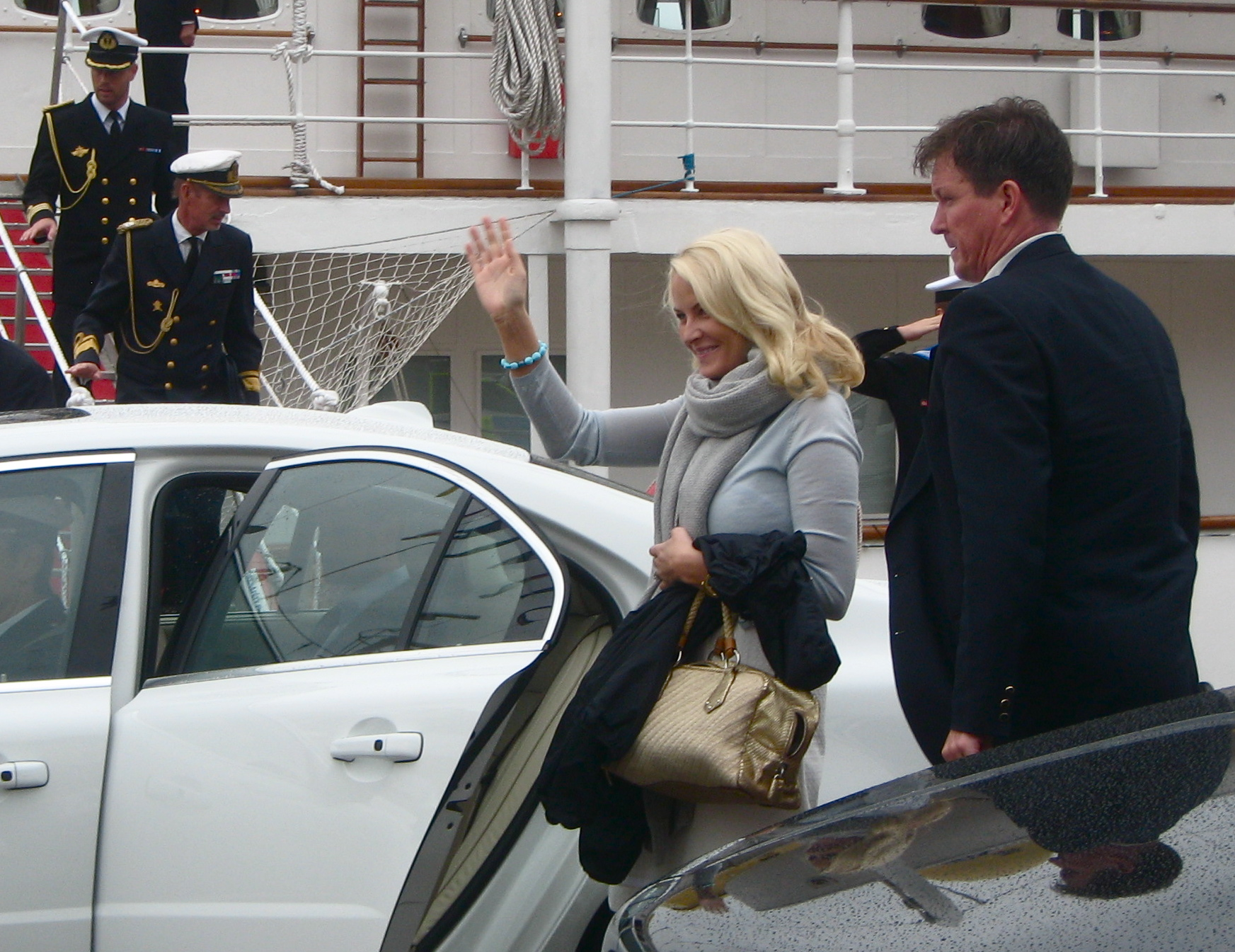 Mette-Marit, Crown Princesse of Norway, disembarked from the R / S of Norway at Skeppsbron in Stockholm, 18 June 2010. The Norwegian royal family is in Stockholm to attend the wedding of Victoria, Crown Princess of Sweden, and Daniel Westling.